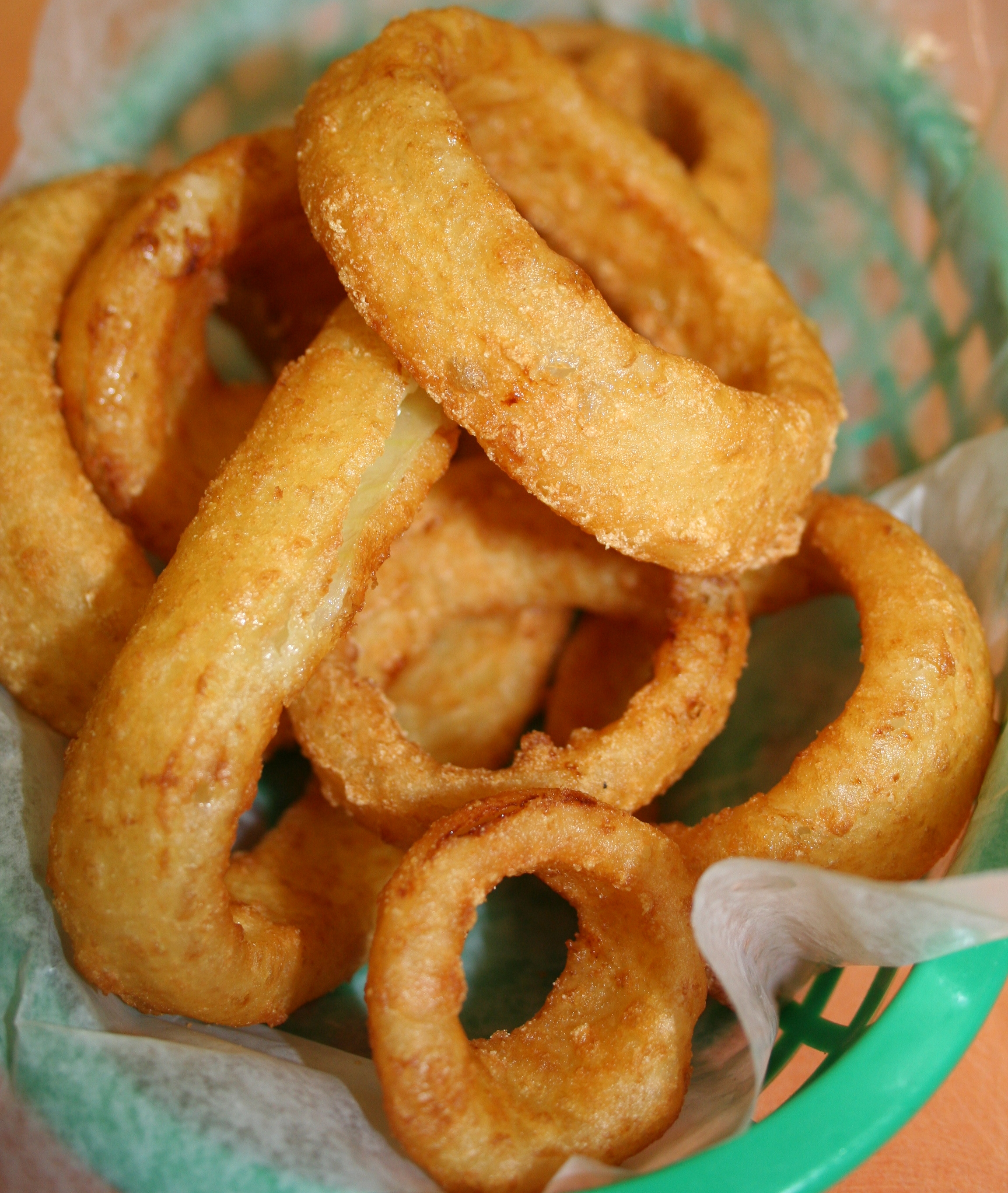 Basket of onion rings from "El Carambas" Mexican restaurant in Rochester, Minnesota.